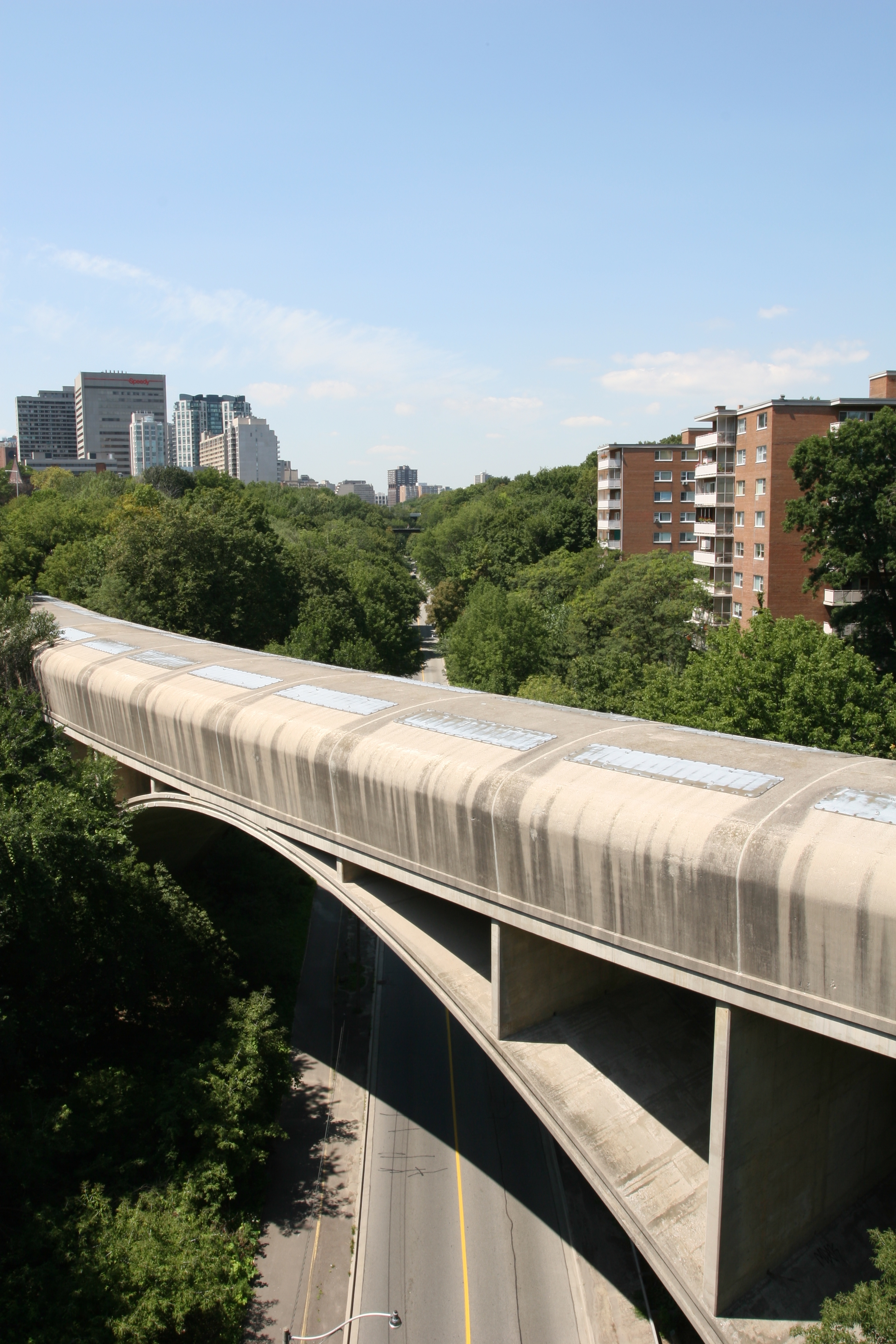 Subway tracks in a box bridge structure over Rosedale Valley Road in Toronto.